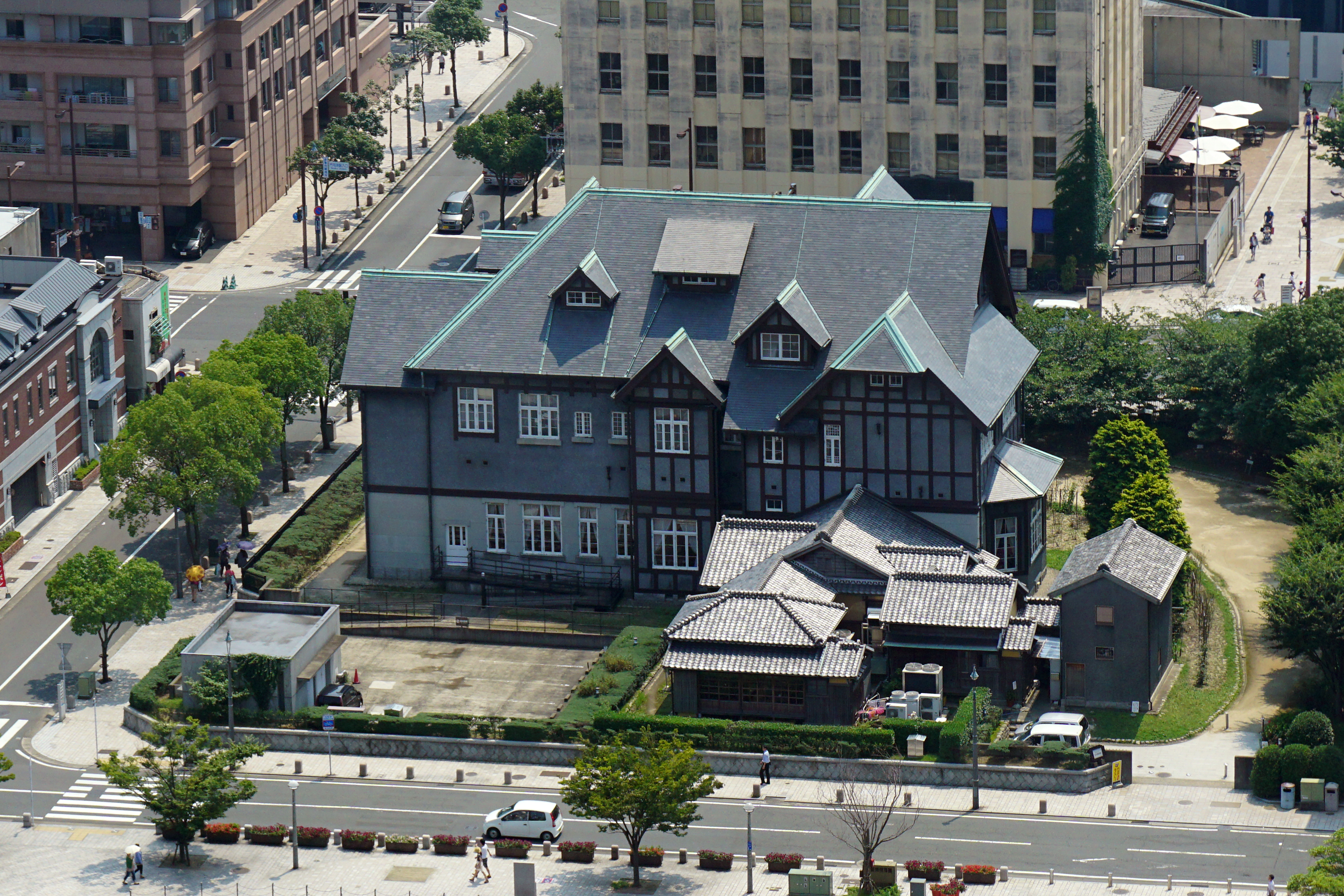 Former Moji Mitsui Club in Kitakyushu, Fukuoka prefecture, Japan.